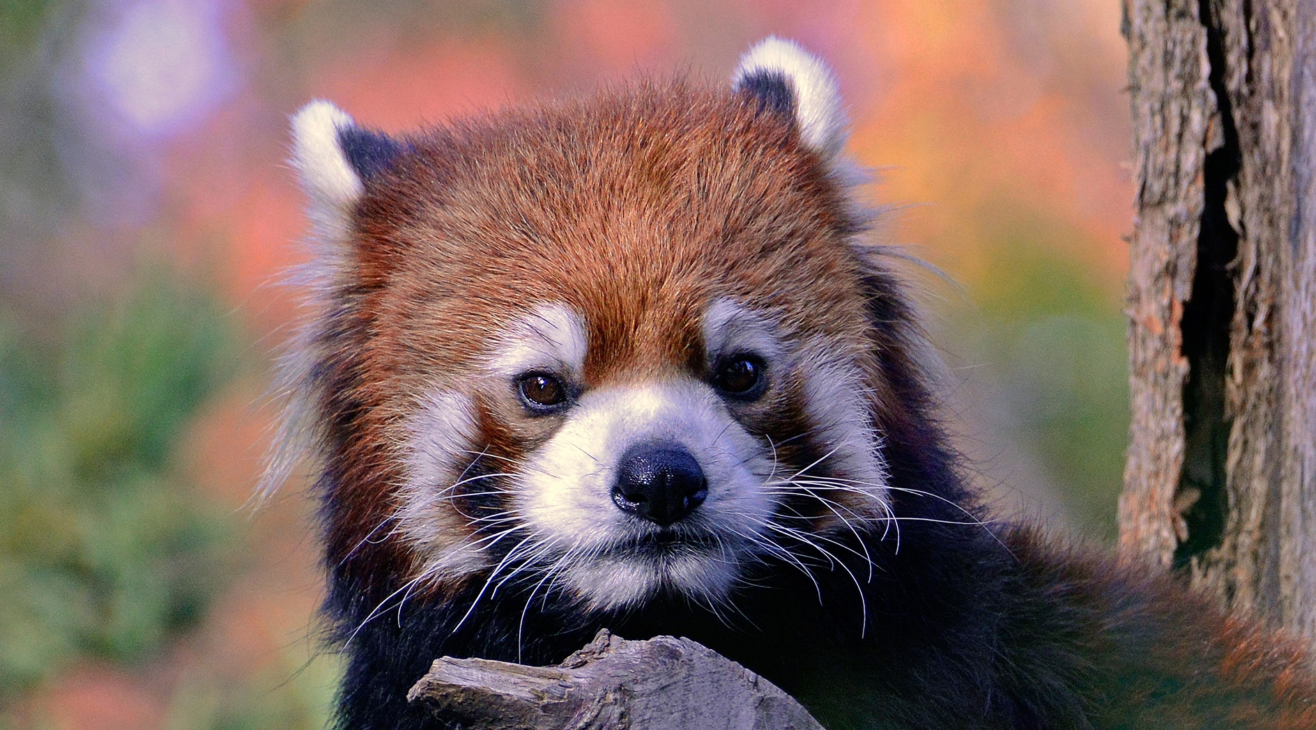 Red panda (Ailurus fulgens), Prospect Park Zoo, New York, USA.